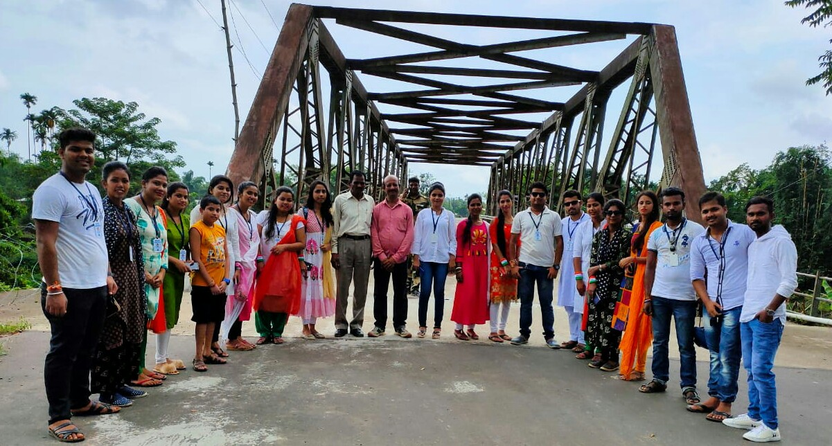 Swapnochowa is a voluntary organization of several like-minded youth who think about the social problems and want to do something for the country keeping the values of the patriotic & communal harmony in their mind and heart.